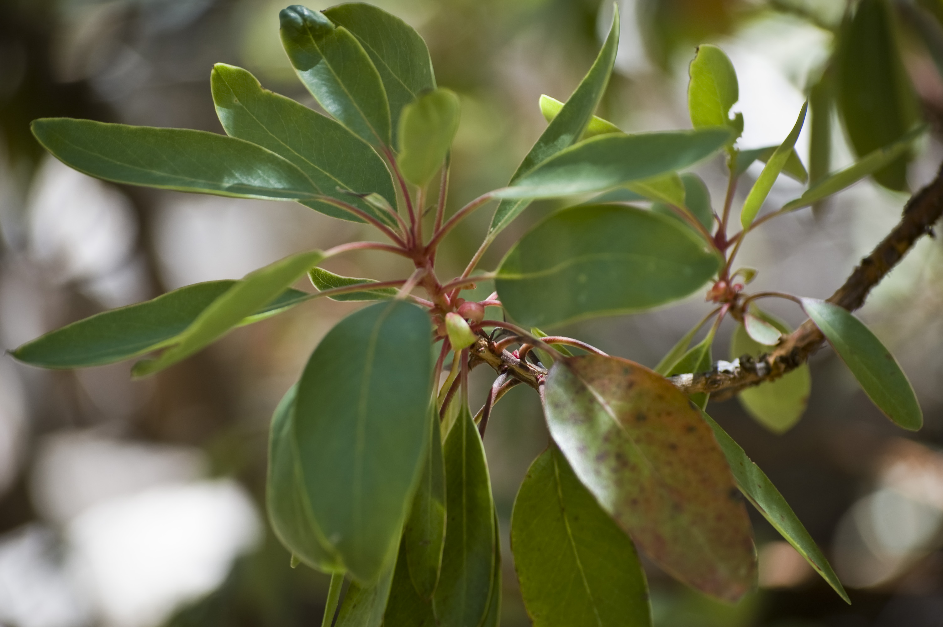 Arbutus arizonica — Arizona madrone; foliage, In Madera Canyon, Coronado National Forest, Arizona.